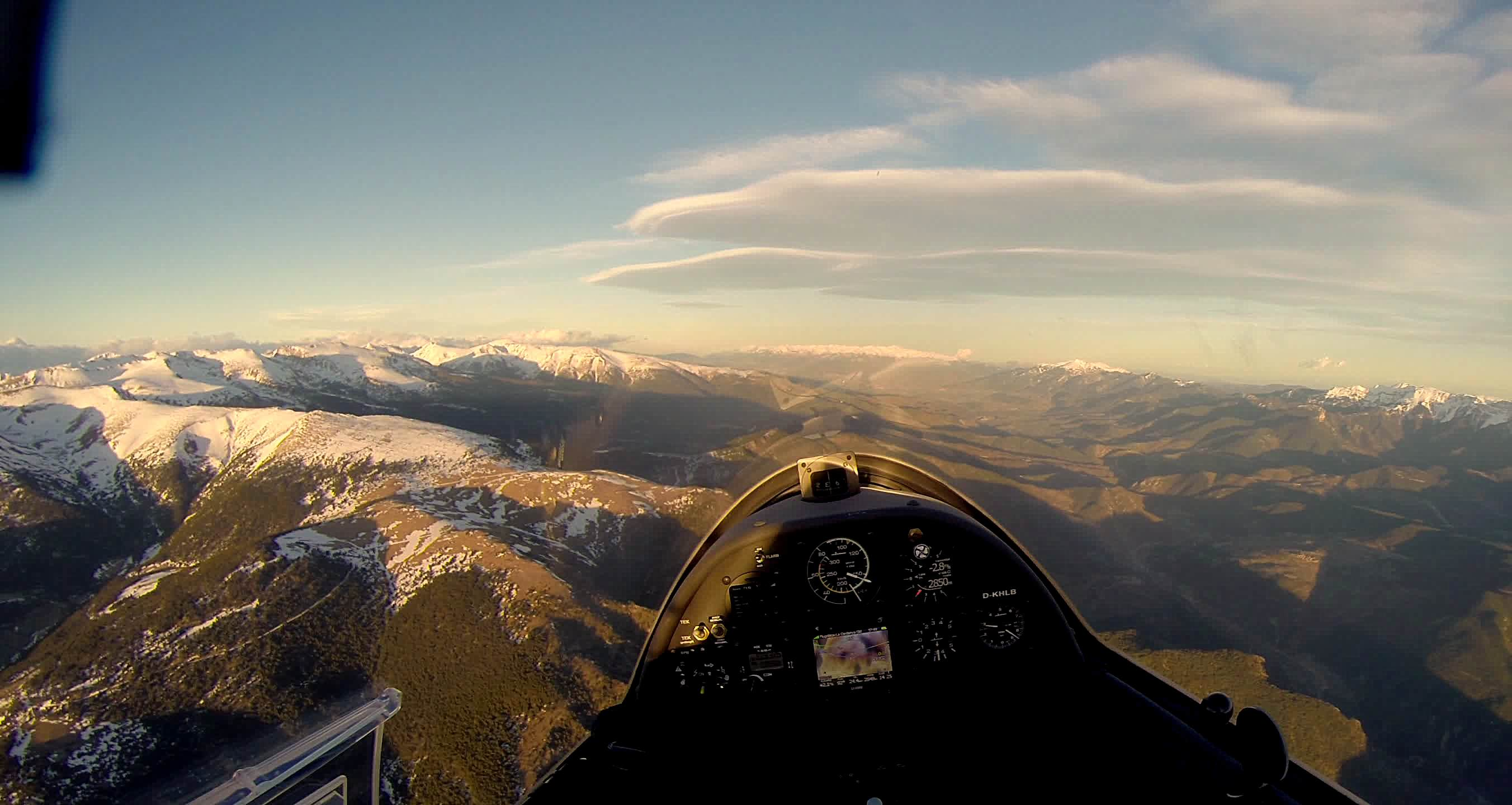 Lenticular clouds provide a visual idication for mountain waves, here from a sailplanes view.